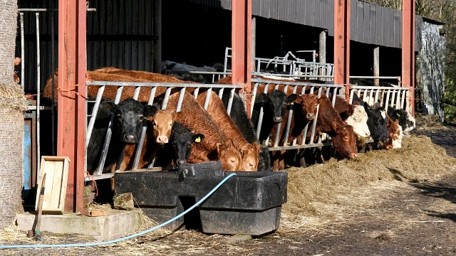 Cattle Barn A cattle barn at Timber Lane Farm¹, opposite a 362663 company at the western end of the metalled section of 621631¹. The photograph was taken from a 615179 linking Timber Lane with Williamthorpe Road¹ in the Highfields area of Holmewood (left, northerly). This photograph was taken in March. At the end of the November of the same year the barn was being used to store hay. ¹ Road/Farm name information from OS Maps at:- Elgin, or the Mapping Portal of the Derbyshire Partnership